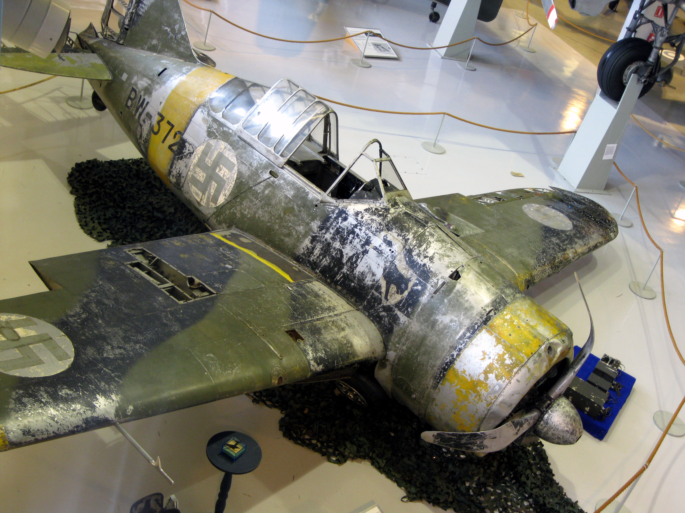 Brewster Model 239 (BW-372) in Aviation Museum of Central Finland.